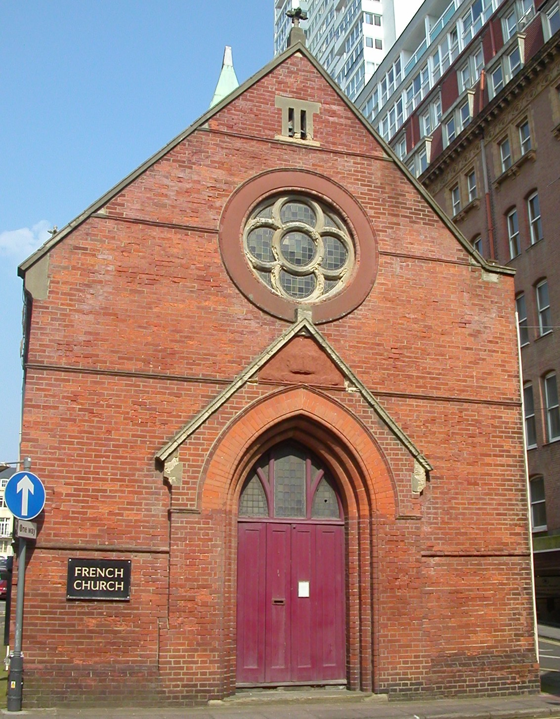 Front (south) elevation of L'Eglise Française Reformée, Queensbury Mews, Brighton, England.